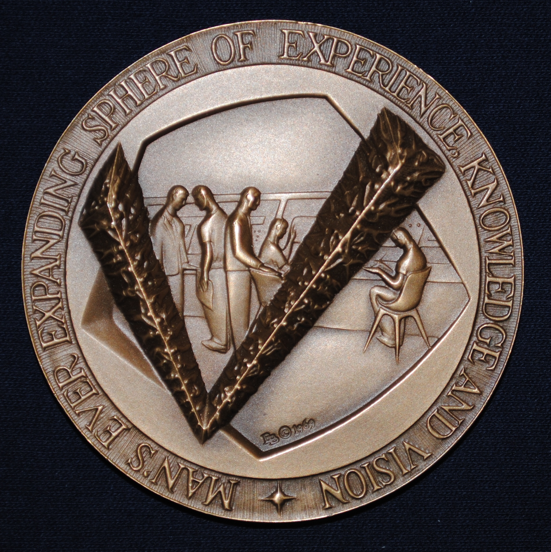 pending